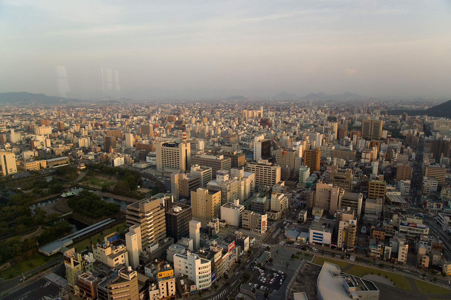 View of Takamatsu, Kagawa, Japan from tower just before sunset